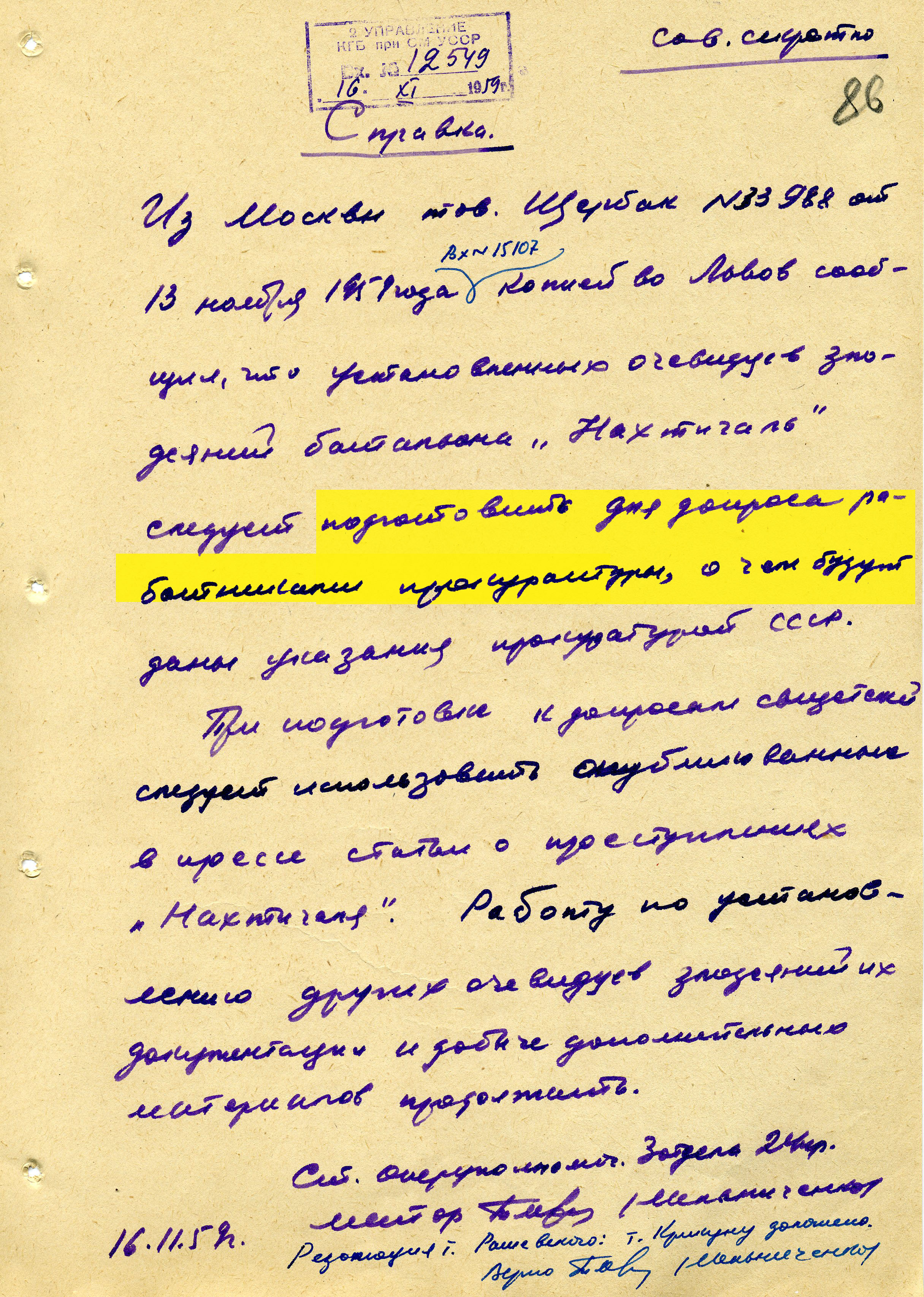 Declassified document of KGB action against Theodor Oberländer